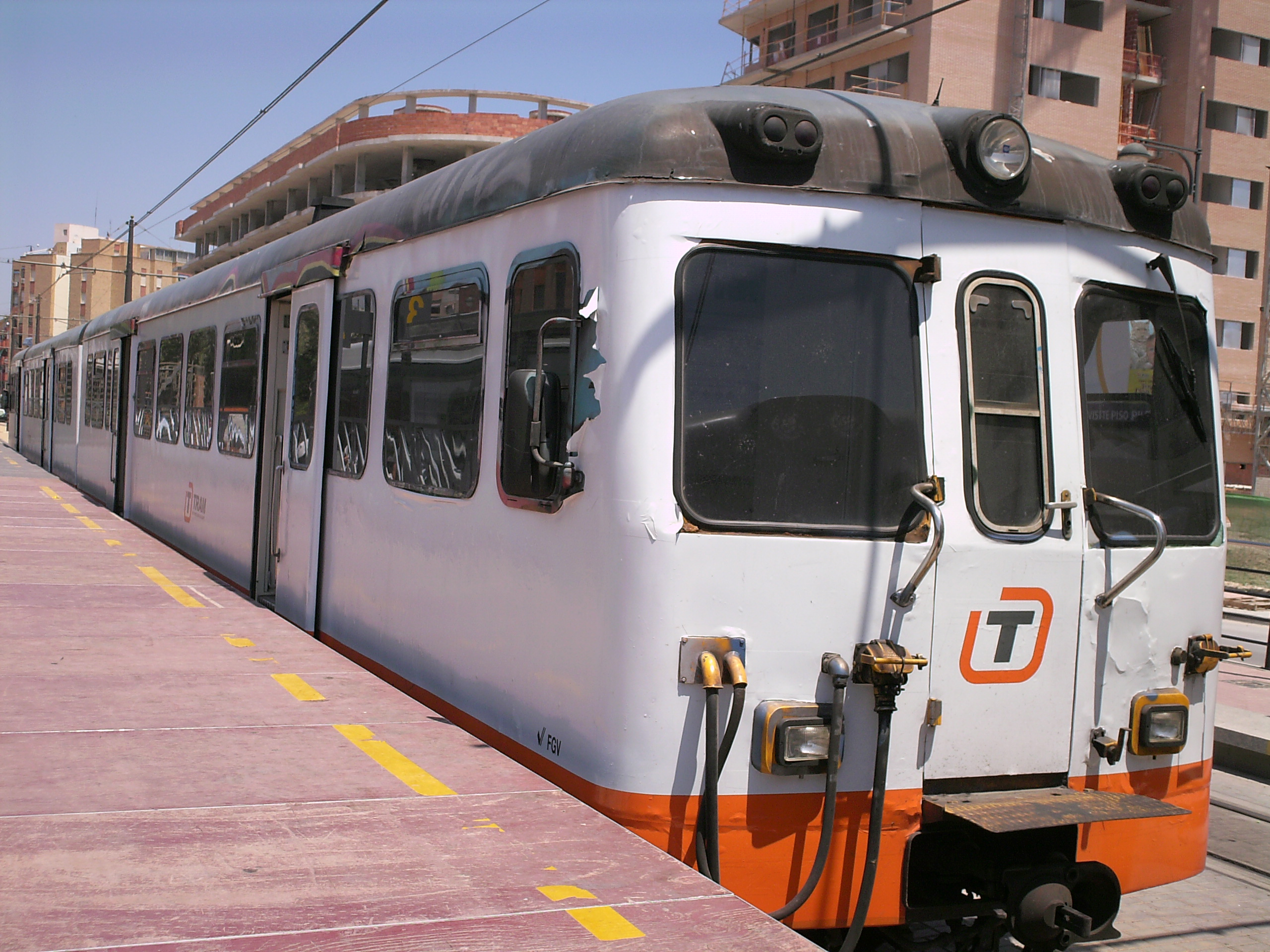 MAN series 2300 diesel multiple unit of Alicante's rapid transit system in El Campello station